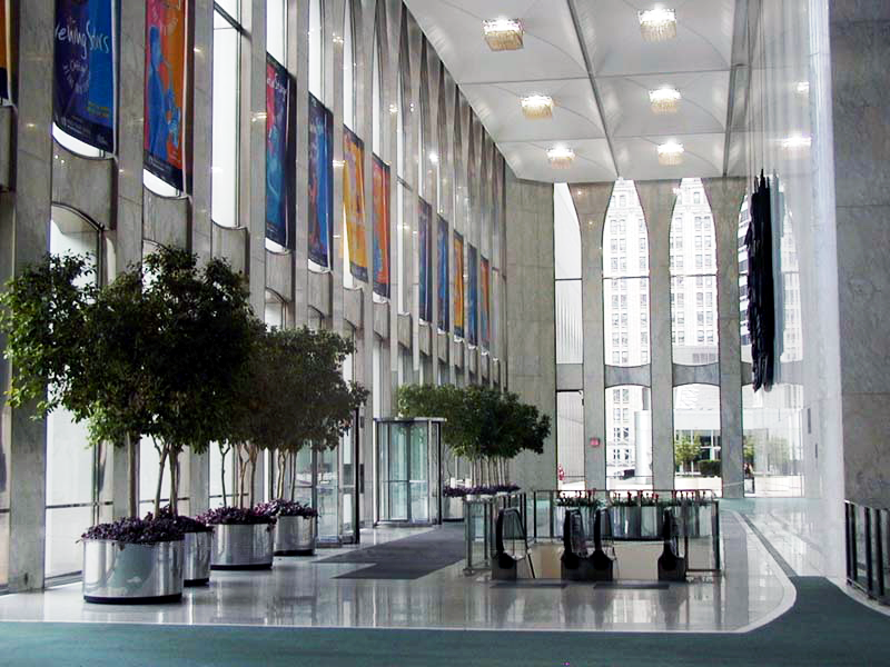 A photo of the World Trade Center lobby taken on 19 August, 2000. Digitally altered with Photoshop 7 to remove a small but distracting white chain across the lobby and to desaturate the ceiling lights to remove a purple tint.